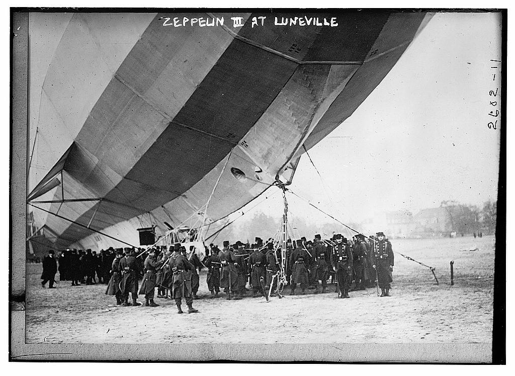 LZ 16 at Luneville in 1913